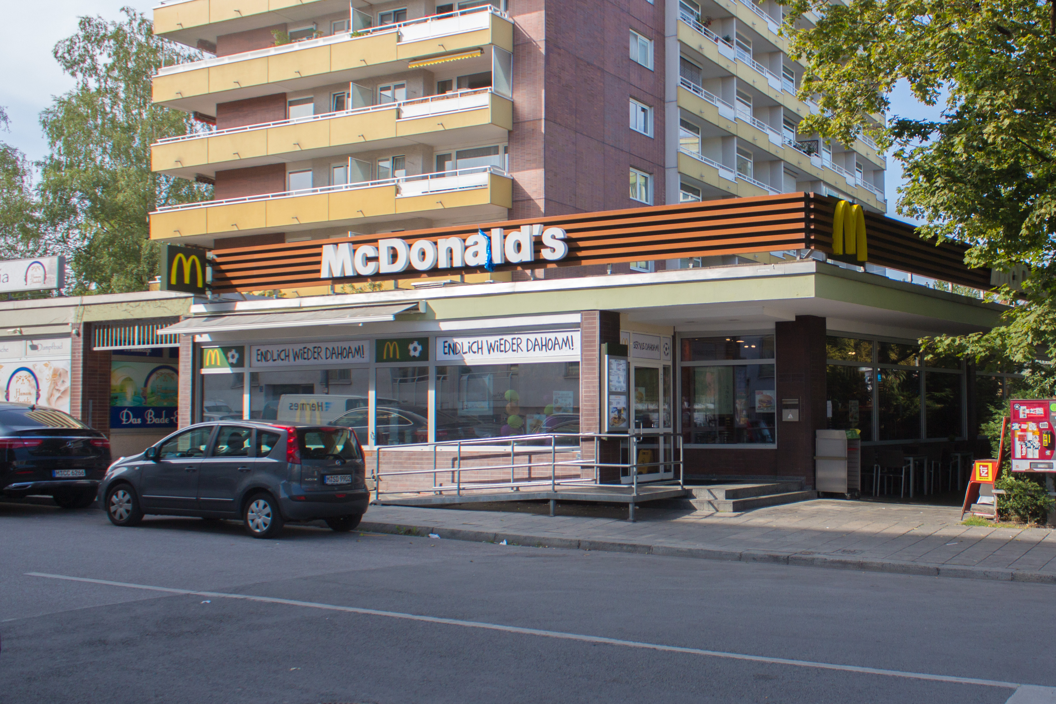 Germany's first McDonald's restaurant in Munich's Martin-Luther-Strasse